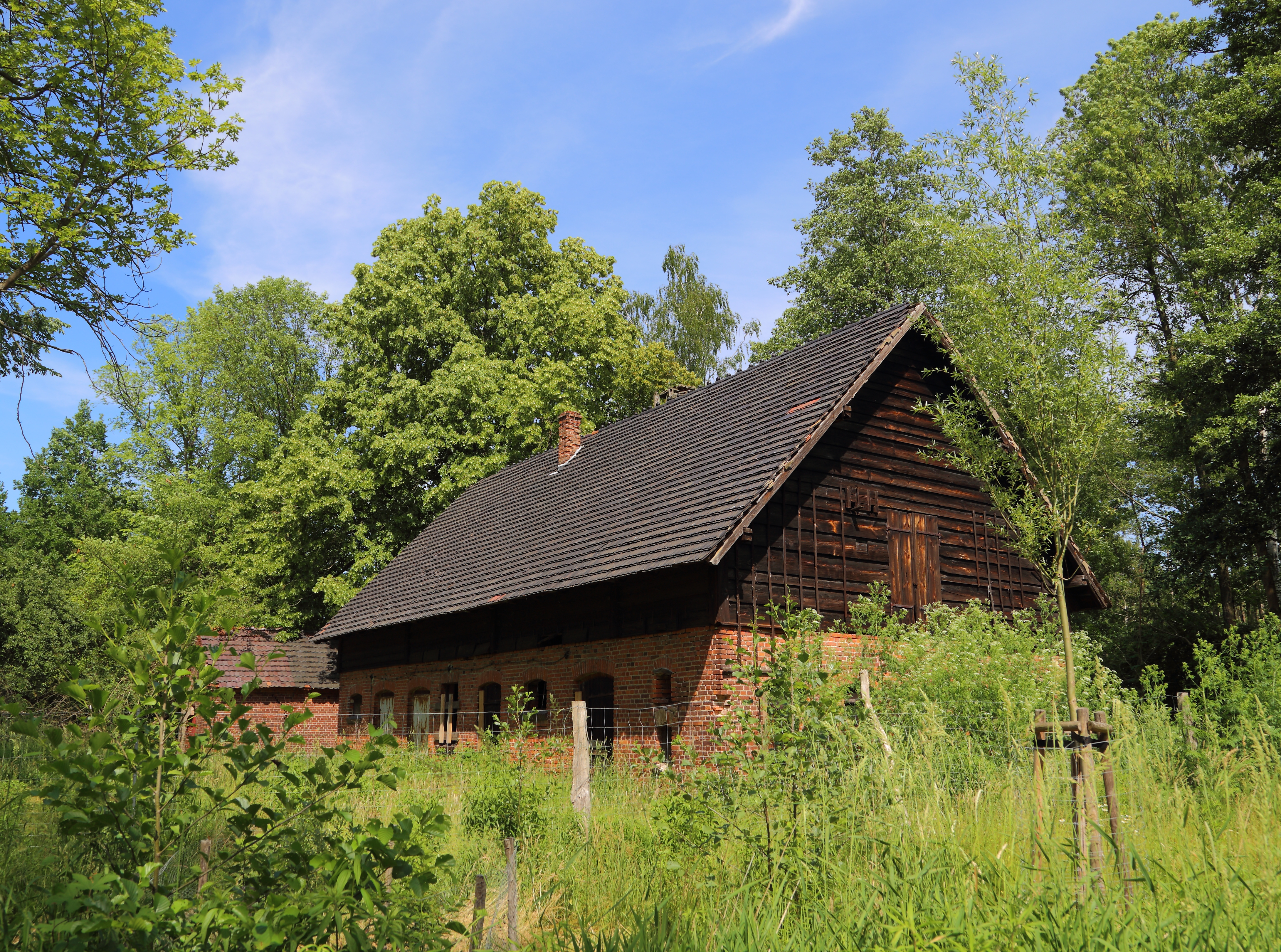 Kanno's Mill (Kannomühle), a former mill and then forester's lodge and inn, near Neu Zauche, Landkreis Dahme-Spreewald, Brandenburg, Germany.